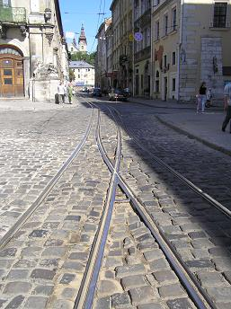 streets of Lviv